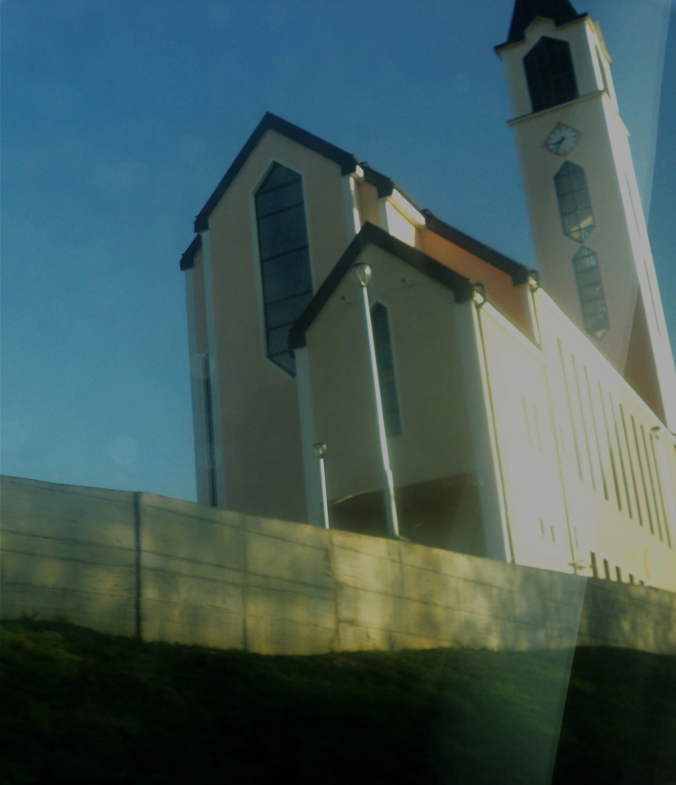 Catholic Church in Bogdanovci